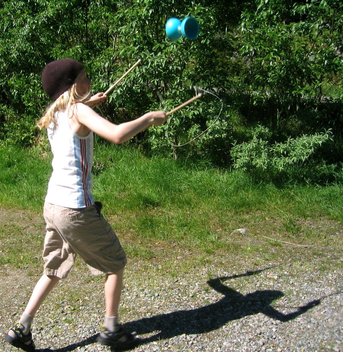 Bendik Faanes' diabolo in mid air. Photographer: Einar Faanes Camera: Canon Ixus v3 Afterwork: Cutting and regulation of light and colour in the GIMP